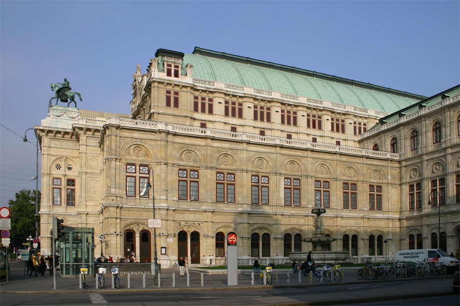 Austria, Vienna, Vienna State Opera